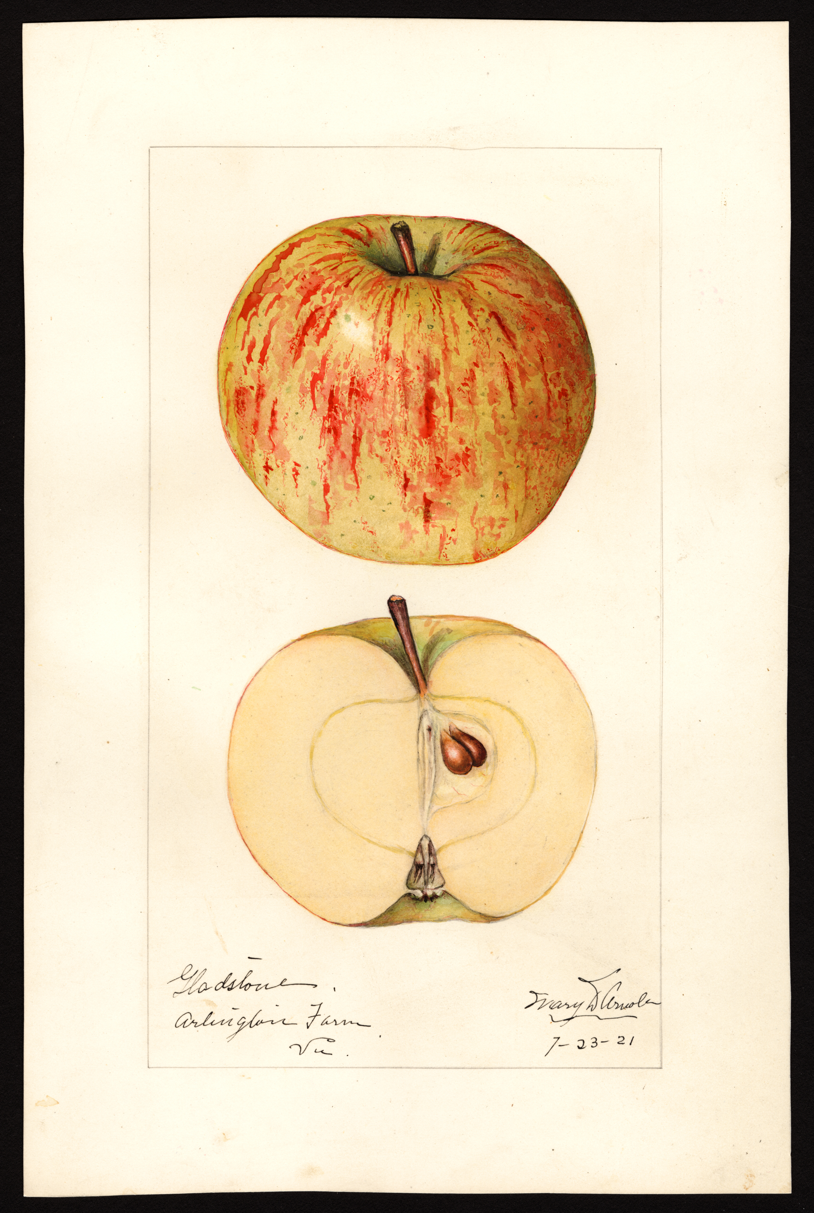 Image of the Gladstone variety of apples (scientific name: Malus domestica), with this specimen originating in Rosslyn, Arlington County, Virginia, United States. Source: U.S. Department of Agriculture Pomological Watercolor Collection. Rare and Special Collections, National Agricultural Library, Beltsville, MD 20705.